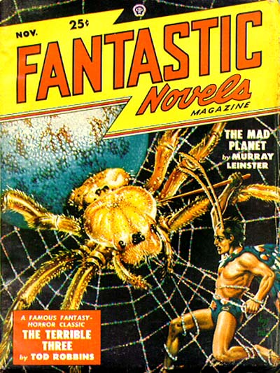 Fantastic Novels, November 1948